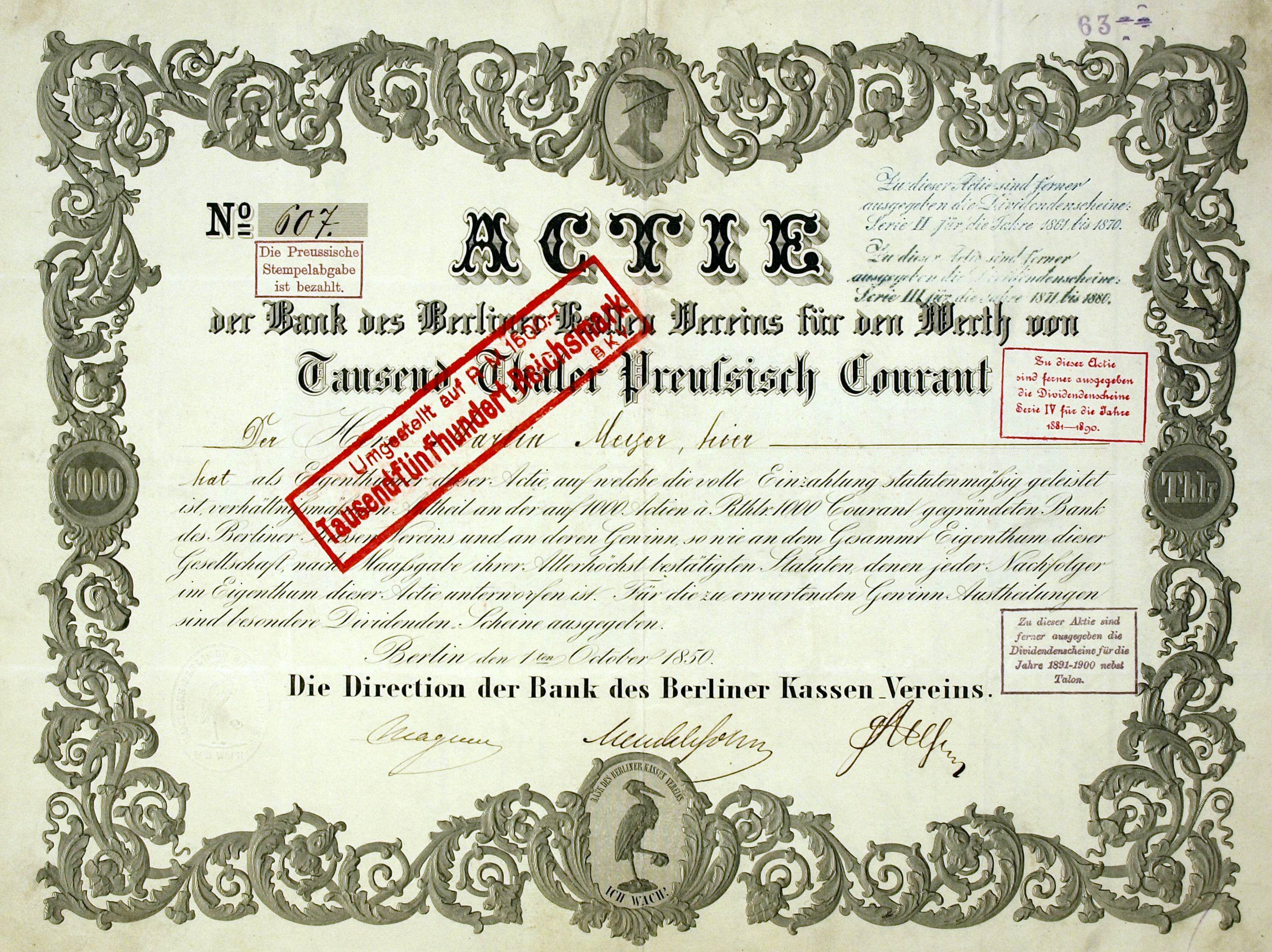 Share of the Bank des Berliner Kassenvereins, issued 1. October 1850